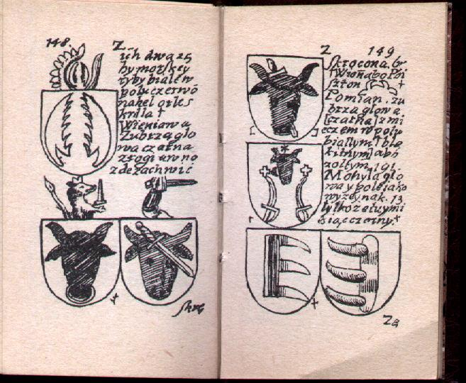 Coat of arms Jastrzębiec from Herby polskie... by Antoni Swach